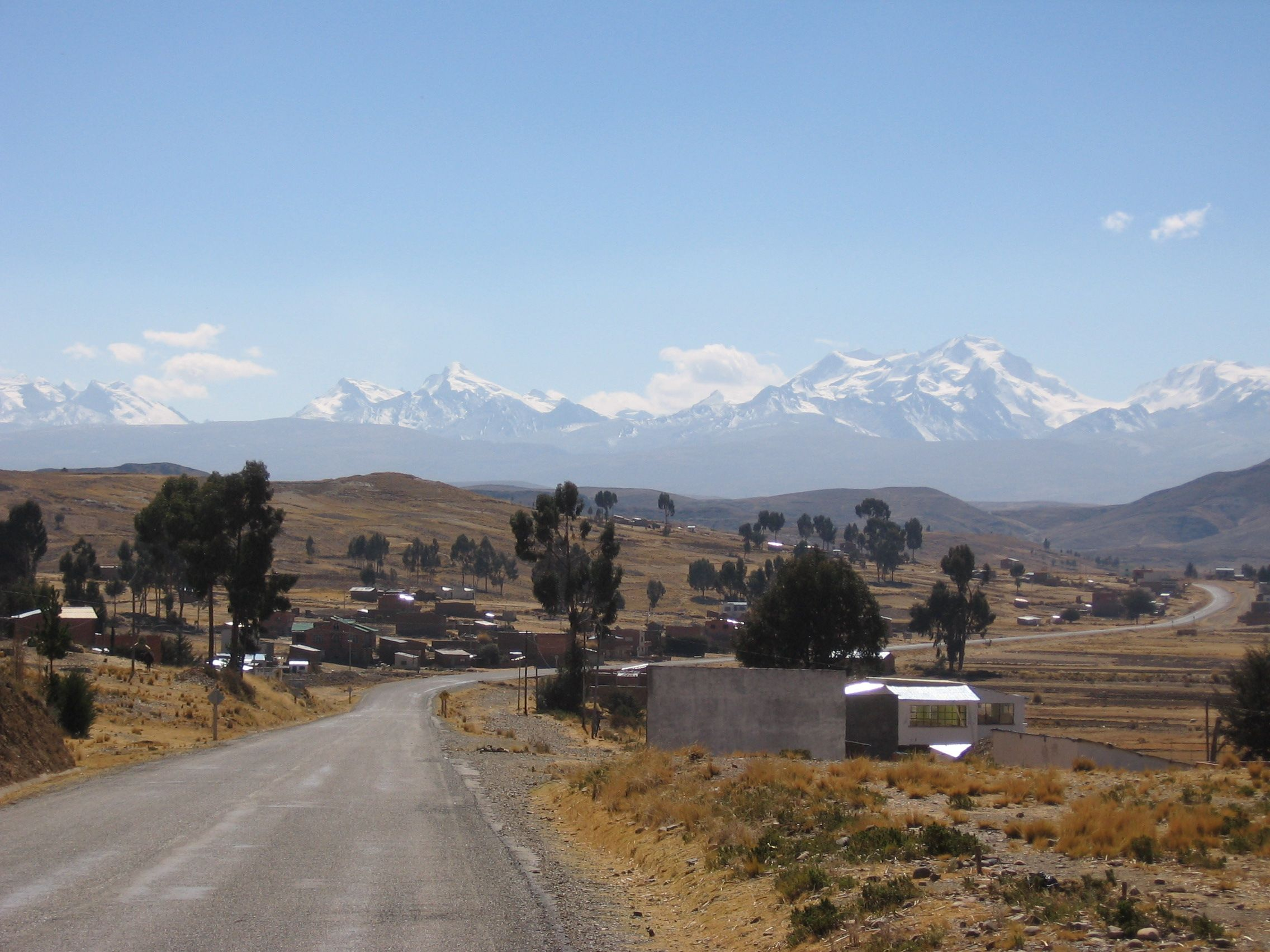 Corliiera Real hinter Chua (Huajata)